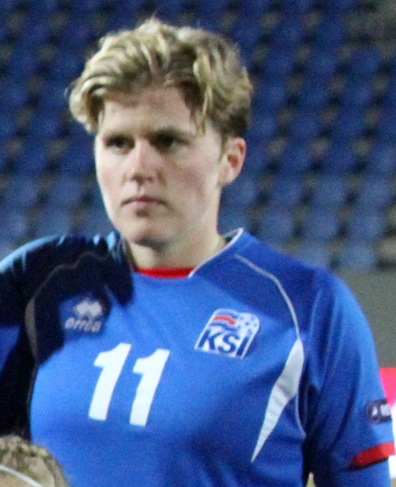 Soccer player Katrín Ómarsdóttir before Iceland-Ukraine 25/10/2012